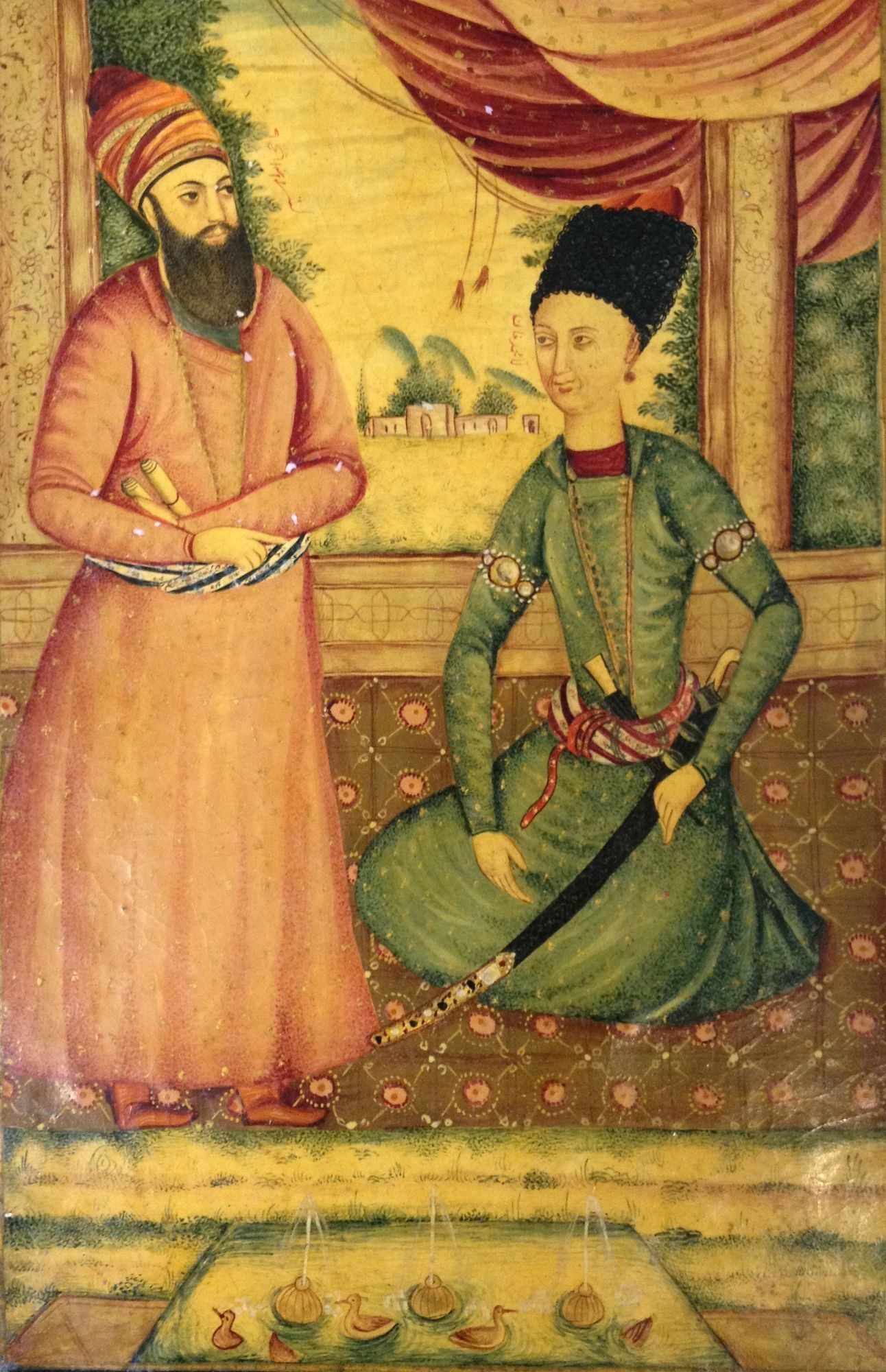 Agha Mohammad Khan with his vizier/minister Ebrahim Khan Kalantar (also known as Hajji Ibrahim). Source: The Cambridge history of Iran, volume 7.